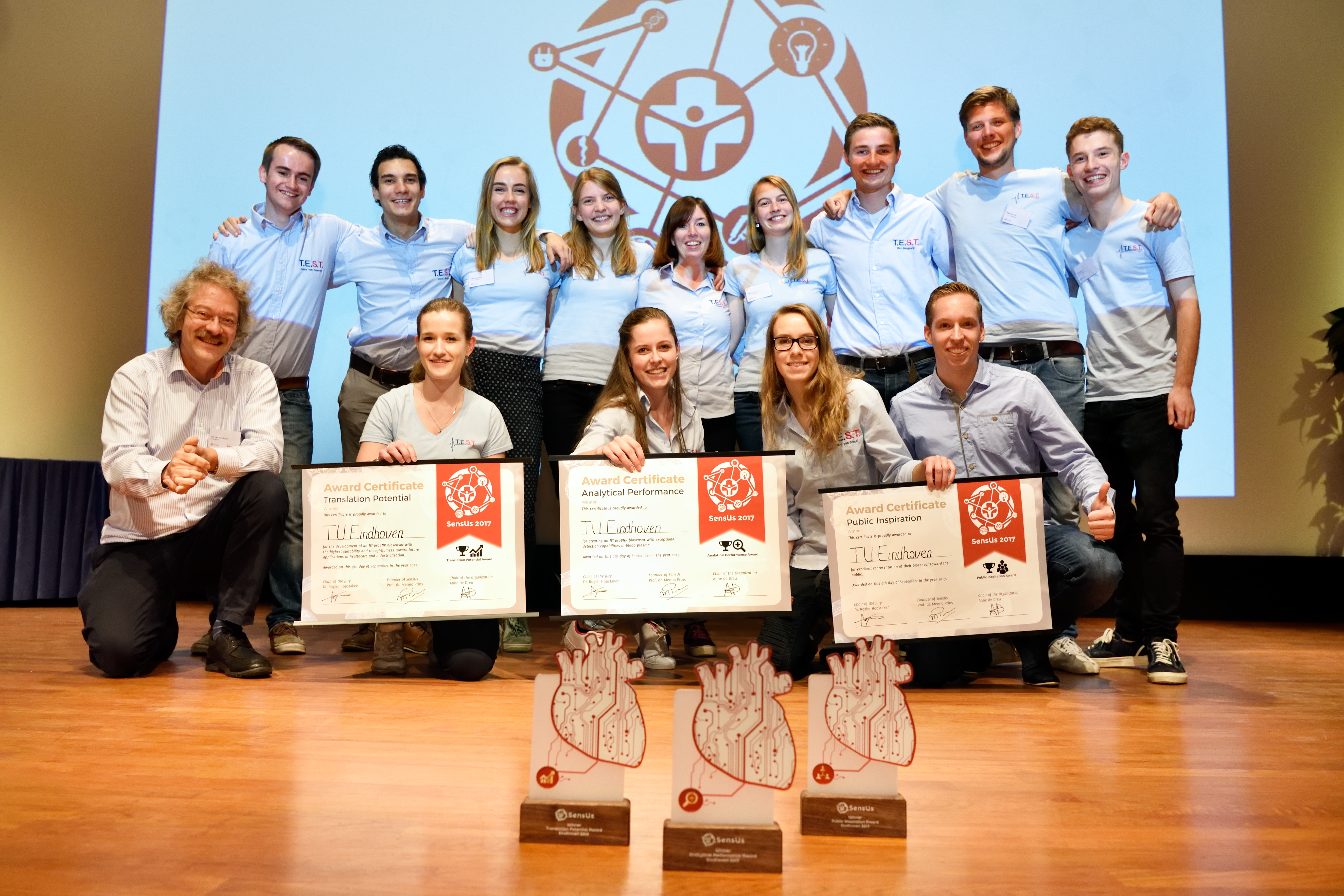 photo of team T.E.S.T. with their 3 awards from the SensUs 2017 compeition